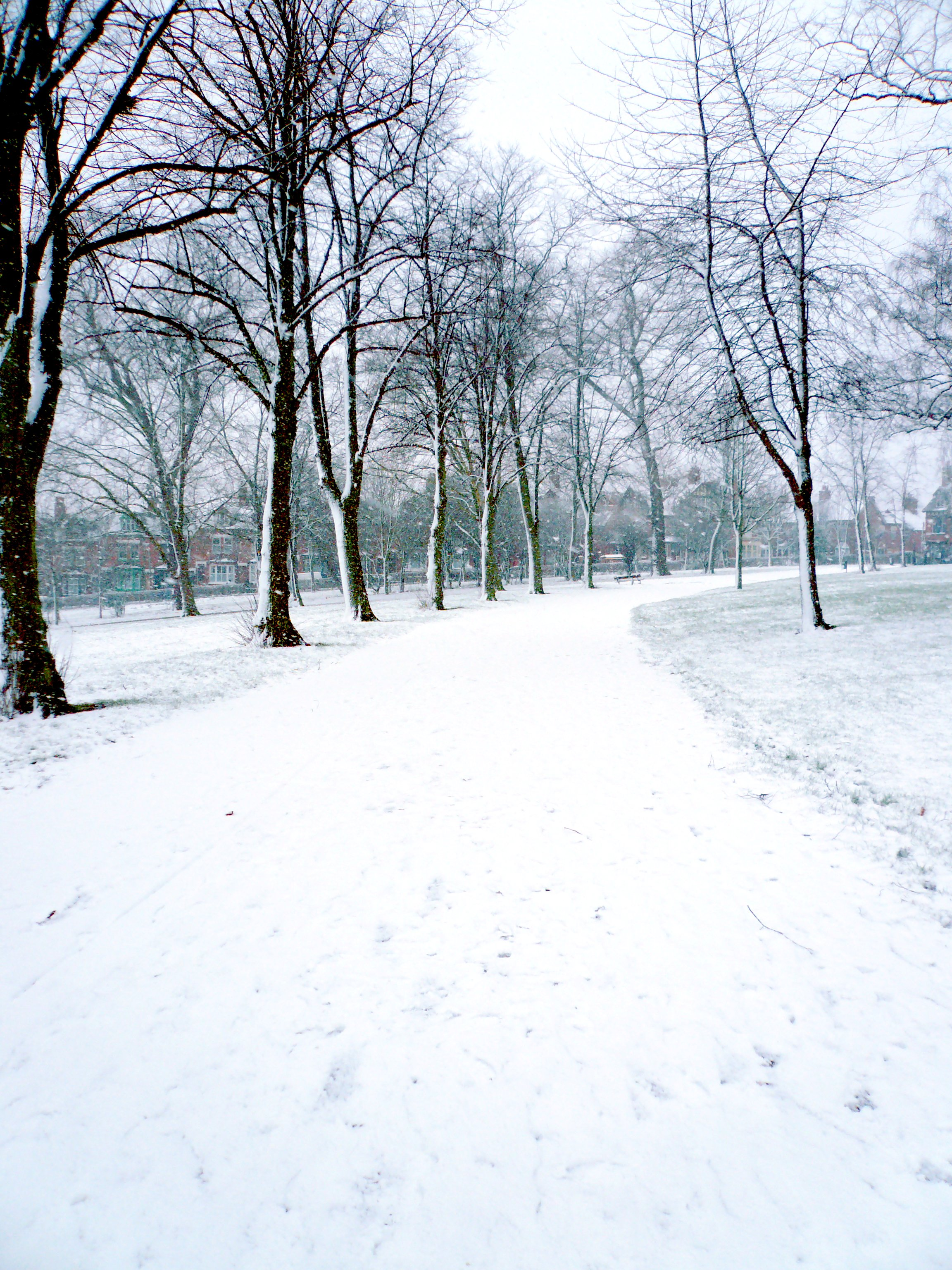 Image taken by myself (User:Pa7). The image was taken on the 8/02/07.